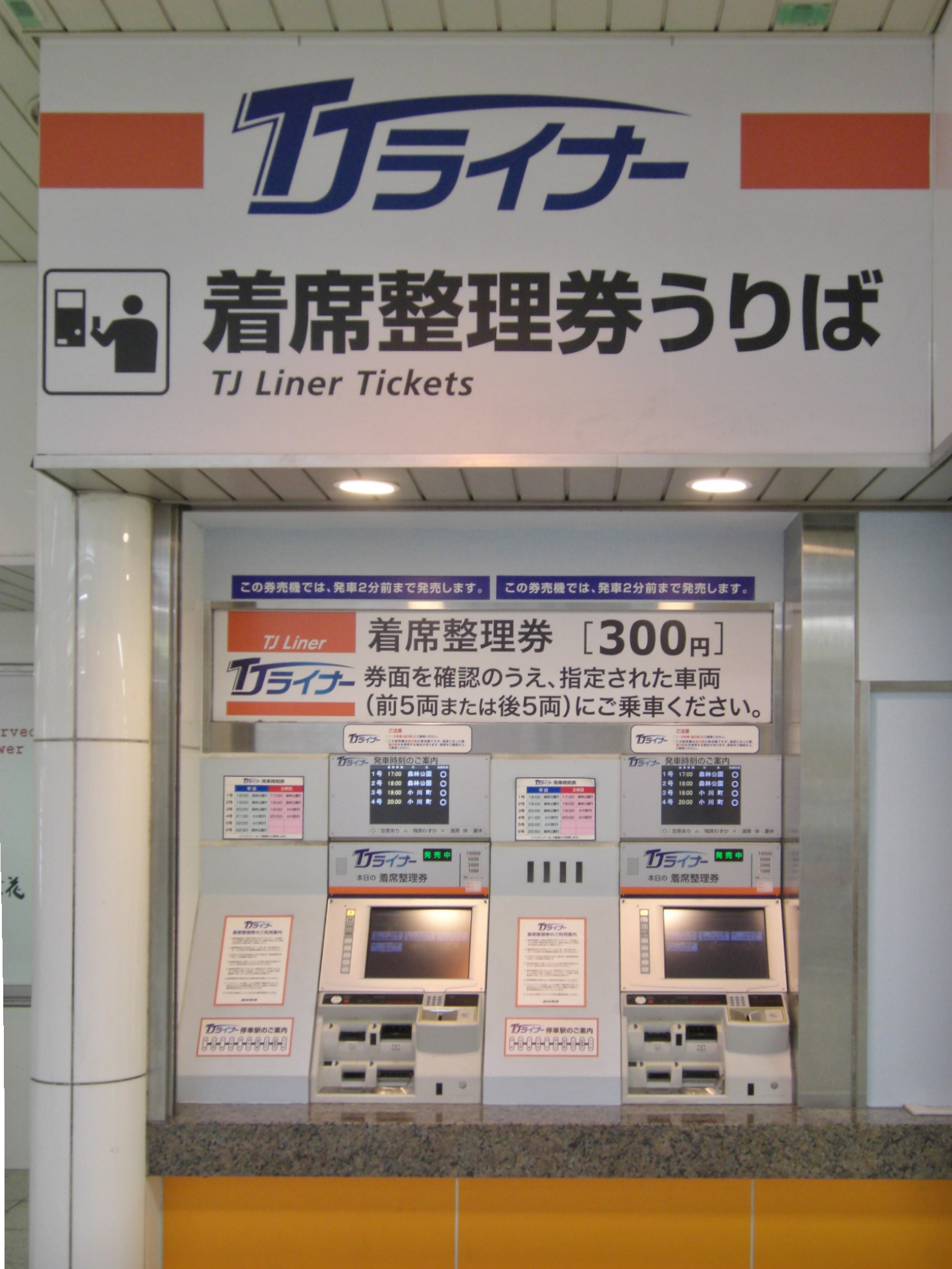 Tobu TJ Liner ticket machines at Ikebukuro Station in Tokyo